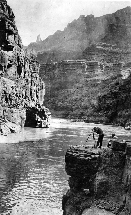 Claude Birdseye at the Colorado River, 1923. Birdseye was the first Chief Topographic Engineer of the USGS (1919-1929) and headed a USGS expedition through the Grand Canyon in 1923 to acquire information on the hydrology, topography, and geology of the Colorado River (Text by U.S. Geological Survey)